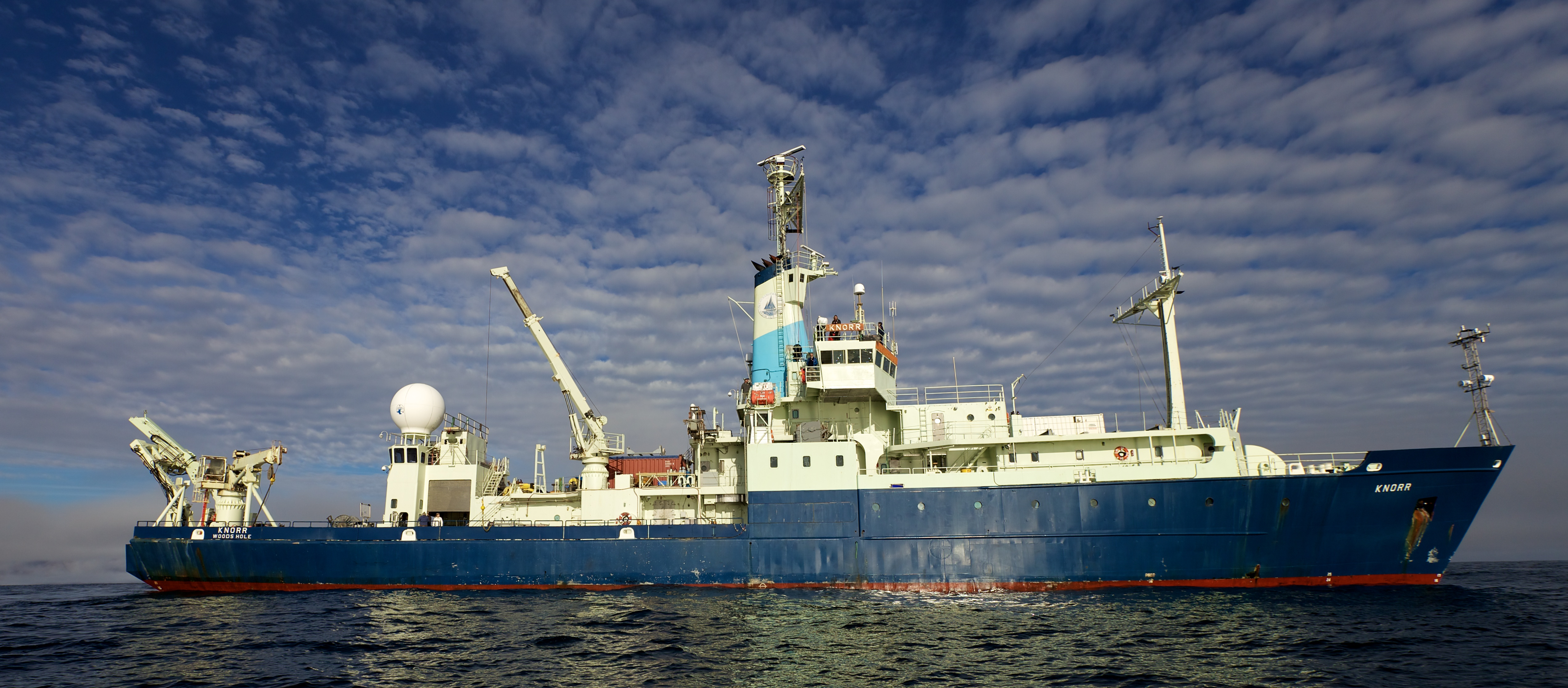 RV «Knorr» photographed outside Greenland on a research cruise, 29 August 2011.